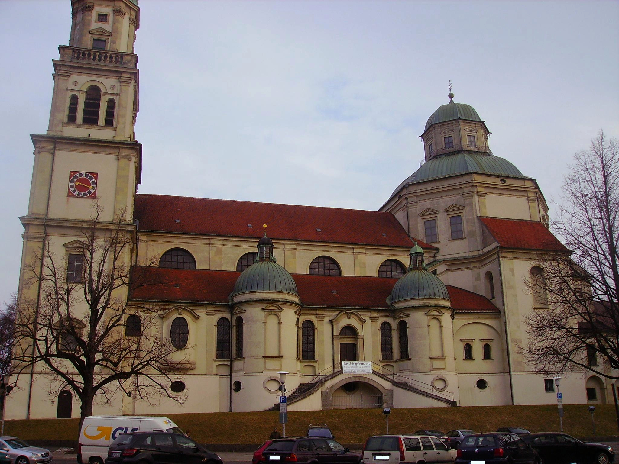 Basilica St. Lawrence, Kempten